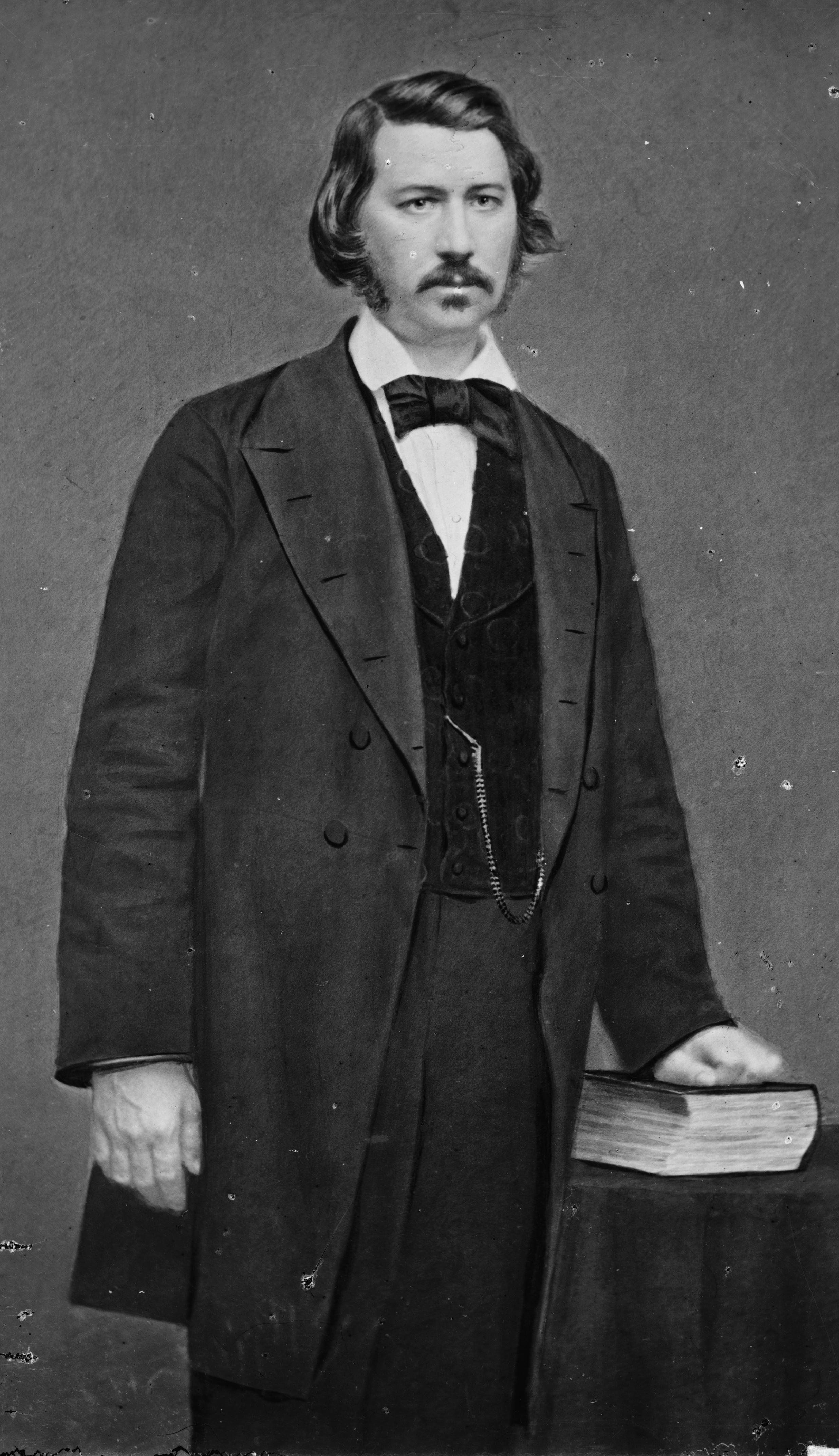 John Edward Bouligny. Library of Congress description: "Hon. John Edw. Bouligny of LA"